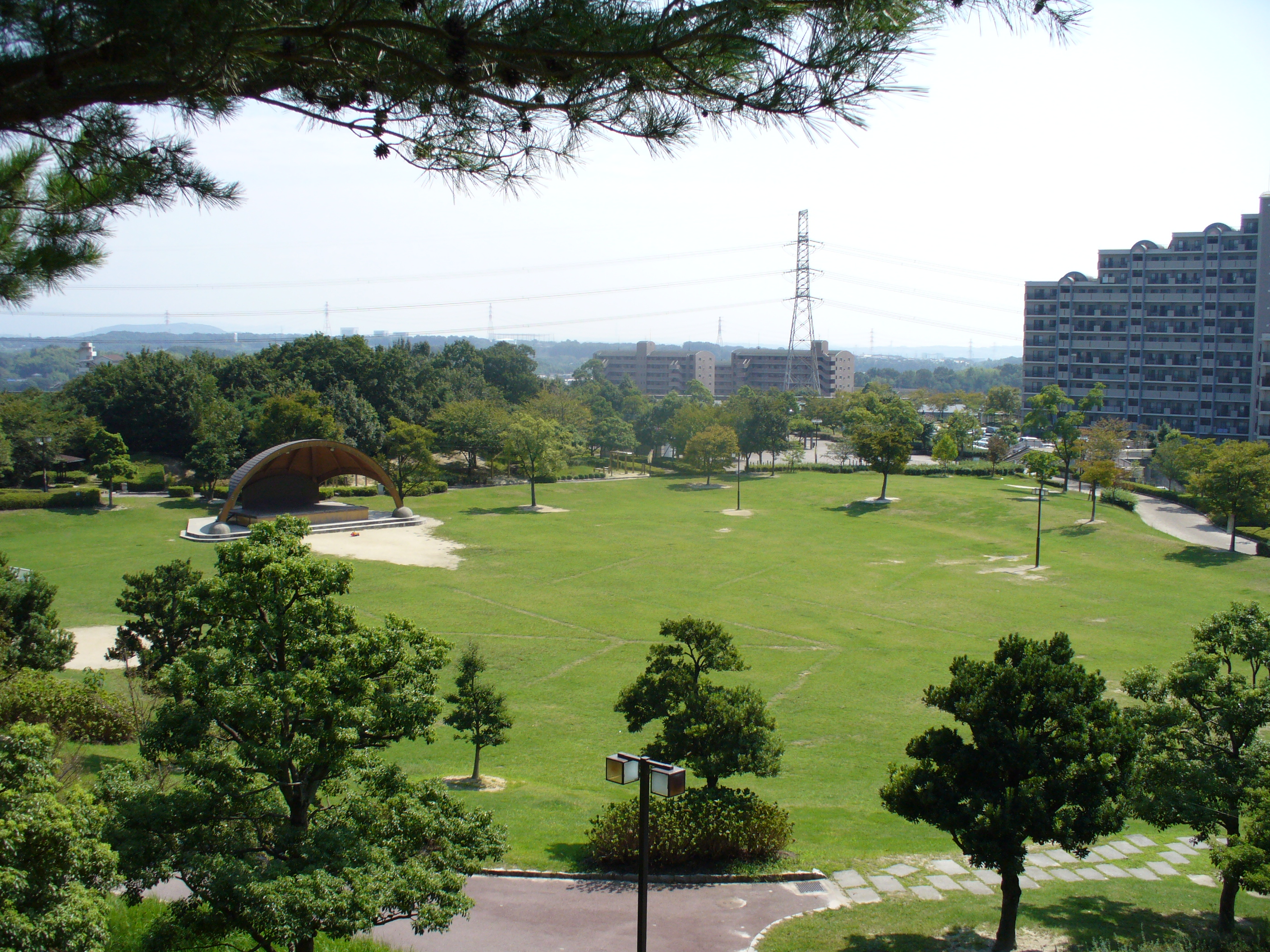 Photograph of Toukadaichuoukouen, taken in Komaki city, Aichi, Japan.